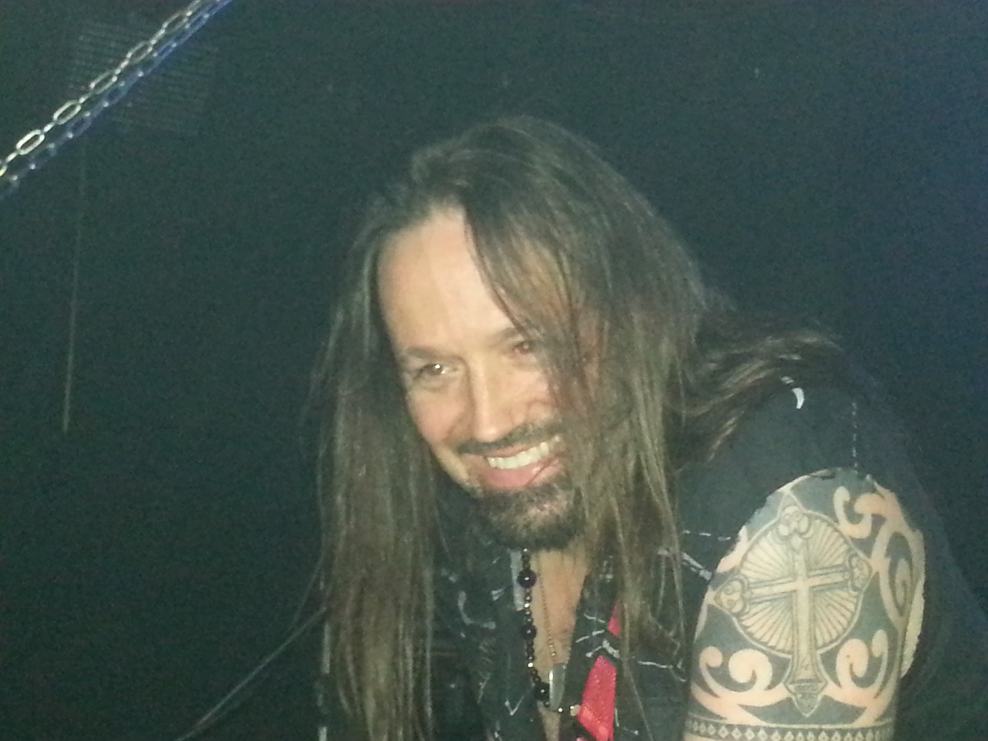 Steve Blaze